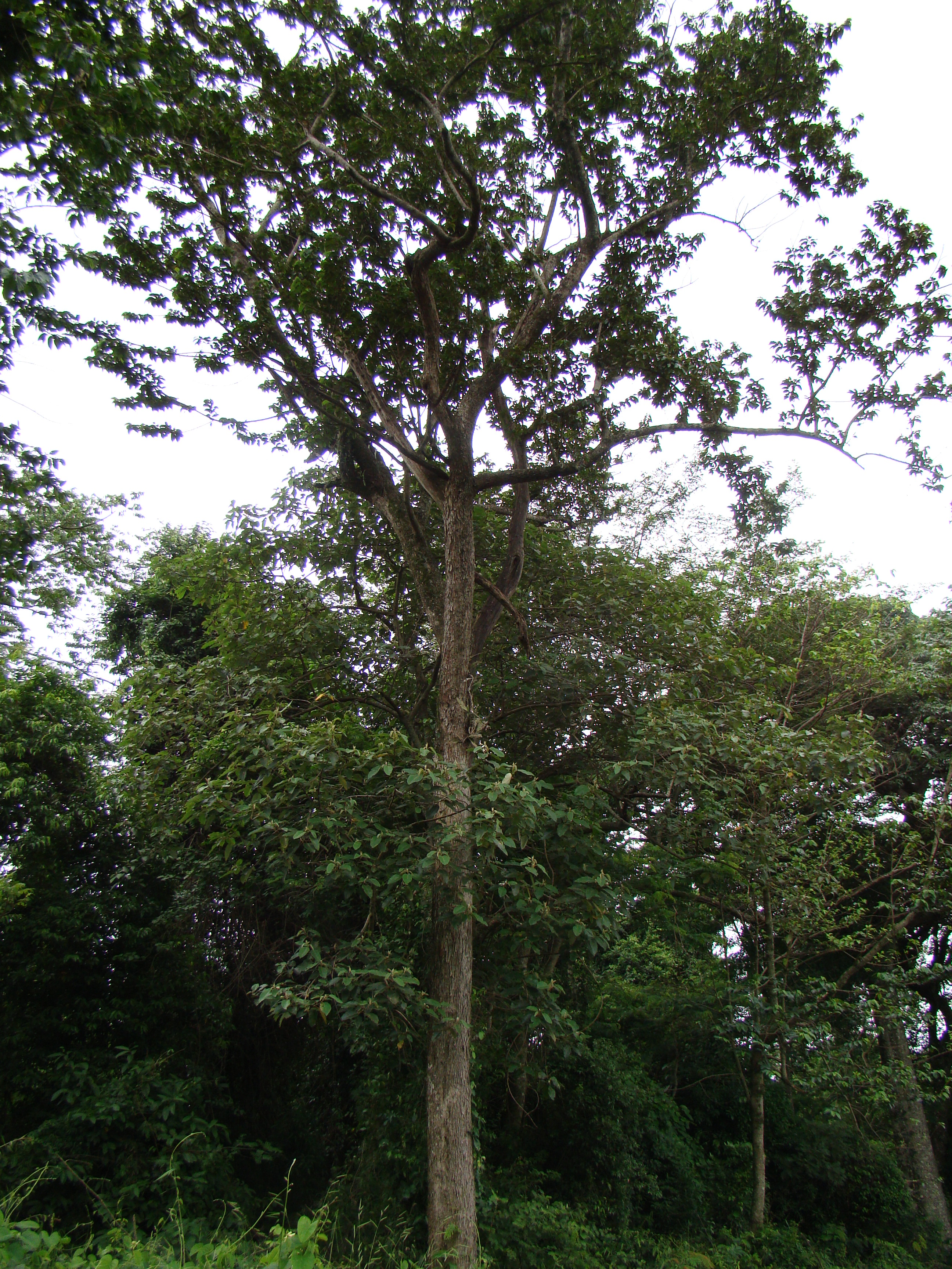 ype-felpudo tree